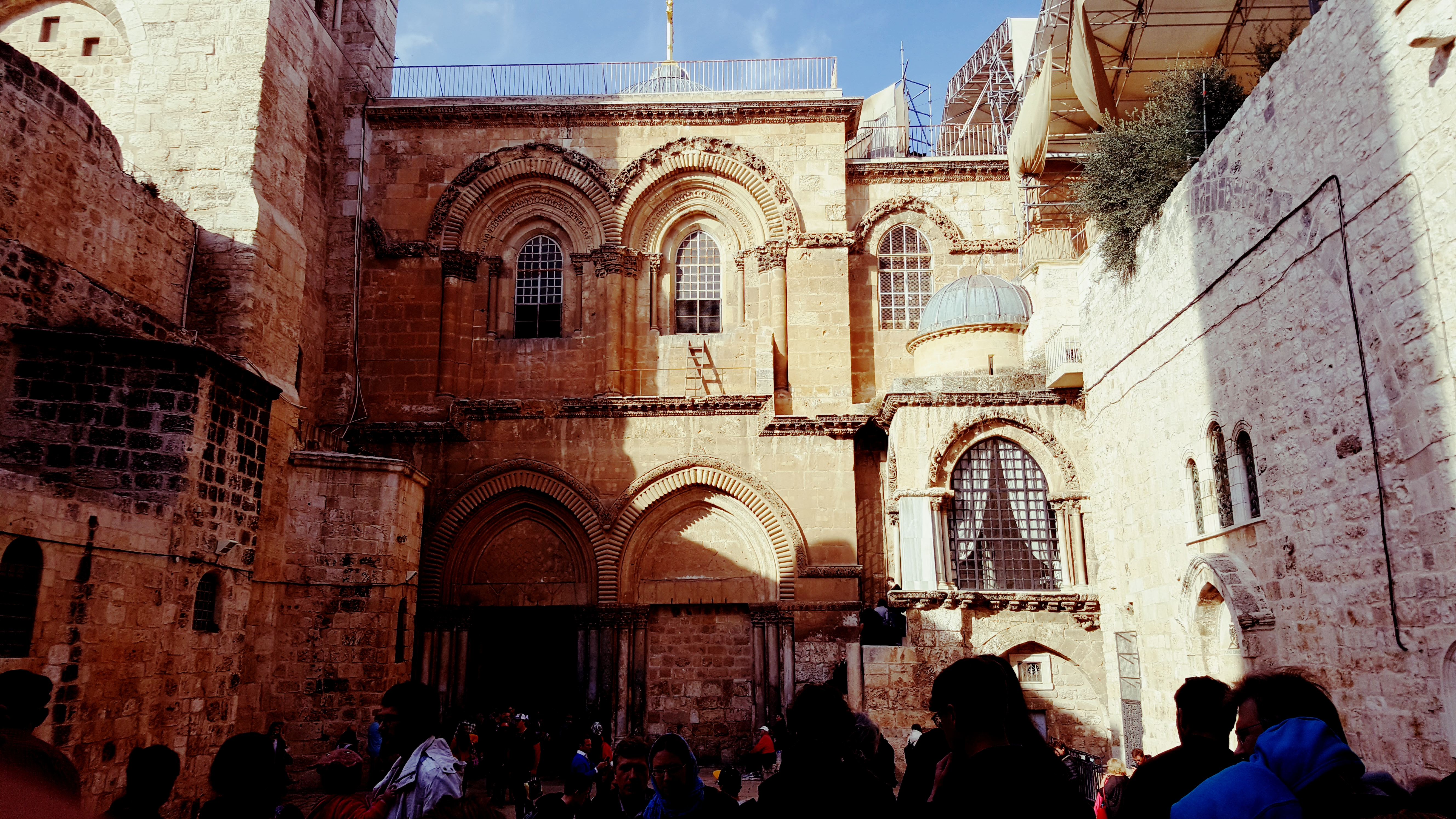 كنيسة القيامة في القدس